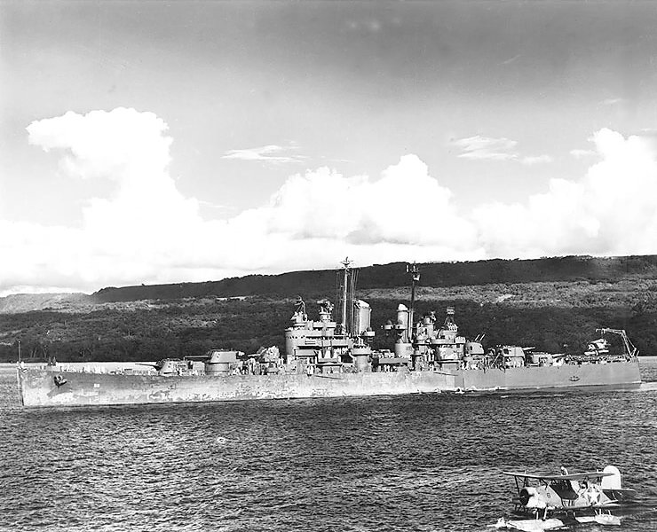 The U.S. Navy light cruiser USS Denver (CL-58) enters Havannah harbour of Éfaté Island, in colonial New Hebrides (present day Vanuatu) during the Solomon Islands Campaign, as seen from USS Columbia (CL-56) on 22 April 1943. Note the Curtiss SOC Seagull floatplane in the right foreground, and the worn paintwork on Denver's hull, forward and amidships, with apparently fresh paint further aft.